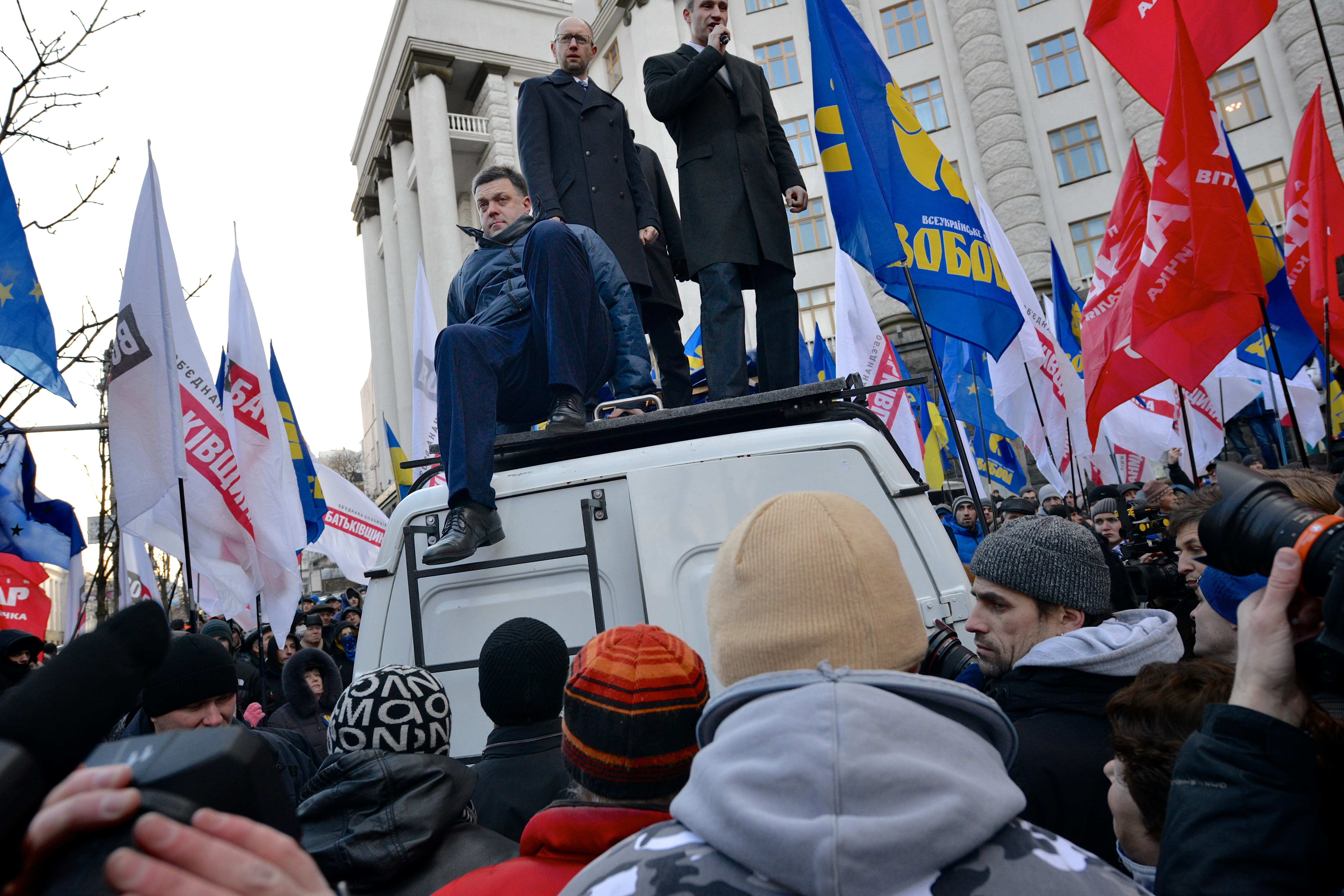 Protest by the Cabinet of Ministers on Wednesday